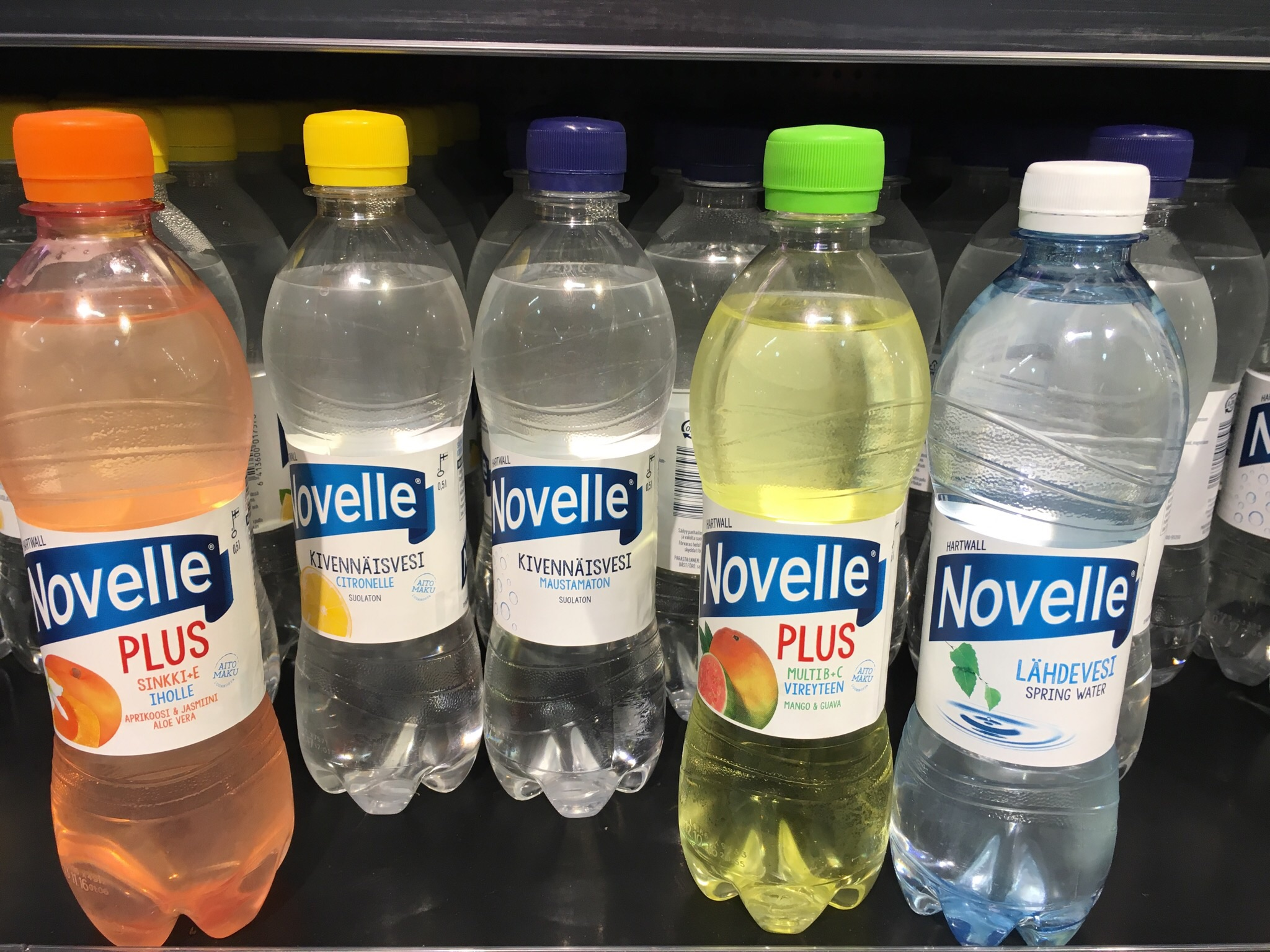 0.5 l novelle bottles in the shop